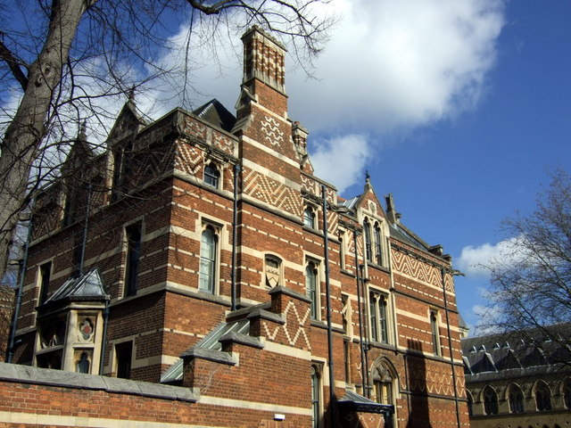 Keble College brickwork This is the warden's lodgings on the corner of Parks Road and Museum Road. Built c.1870 and good example of the architect William Butterfield's use of polychromatic brickwork, described by its critics (who were legion) as the "holy zebra" style. It was in fact defiant assertion of the college's high church position and a deliberate challenge to the institution over the road (the University Museum, partly visible in this image) where Charles Darwin's newly published thesis on evolution was being hotly debated.